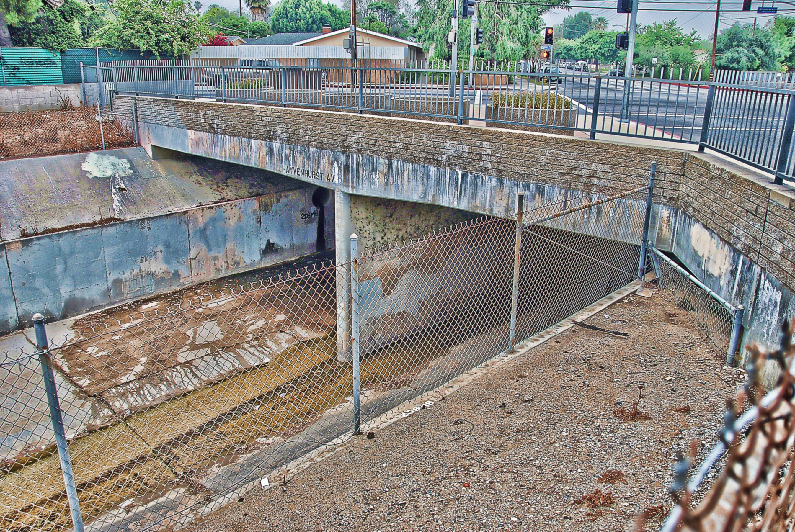 Plummer & Hayvenhurst. Location of the scene in which the truck crashes through and into the channel in the 1991 film Terminator 2: Judgment Day